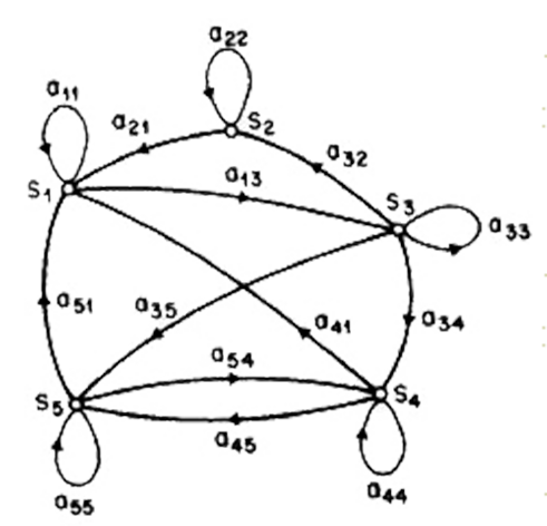 makov'